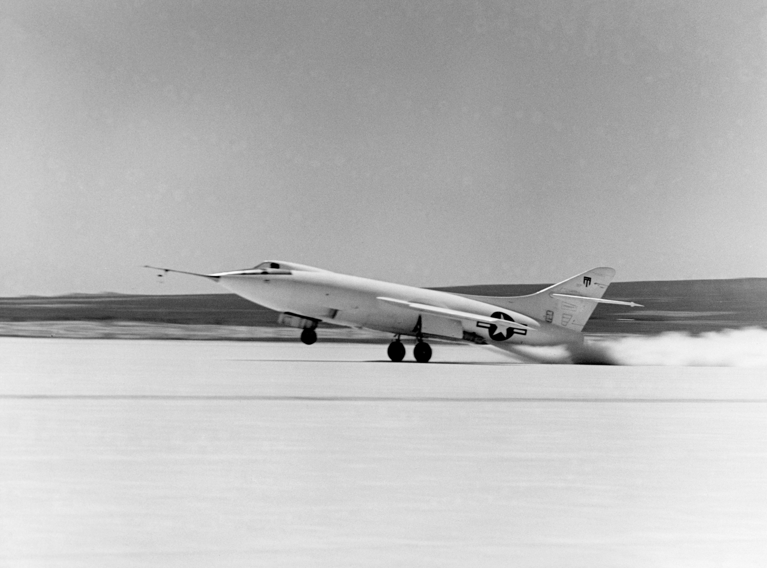 Douglas D-558-II Skyrocket take off using JATO assist.